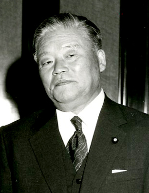 Masayoshi Ōhira, Minister for Foreign Affairs, met Keith Holyoake, Prime Minister, in New Zealand on October, 1972.